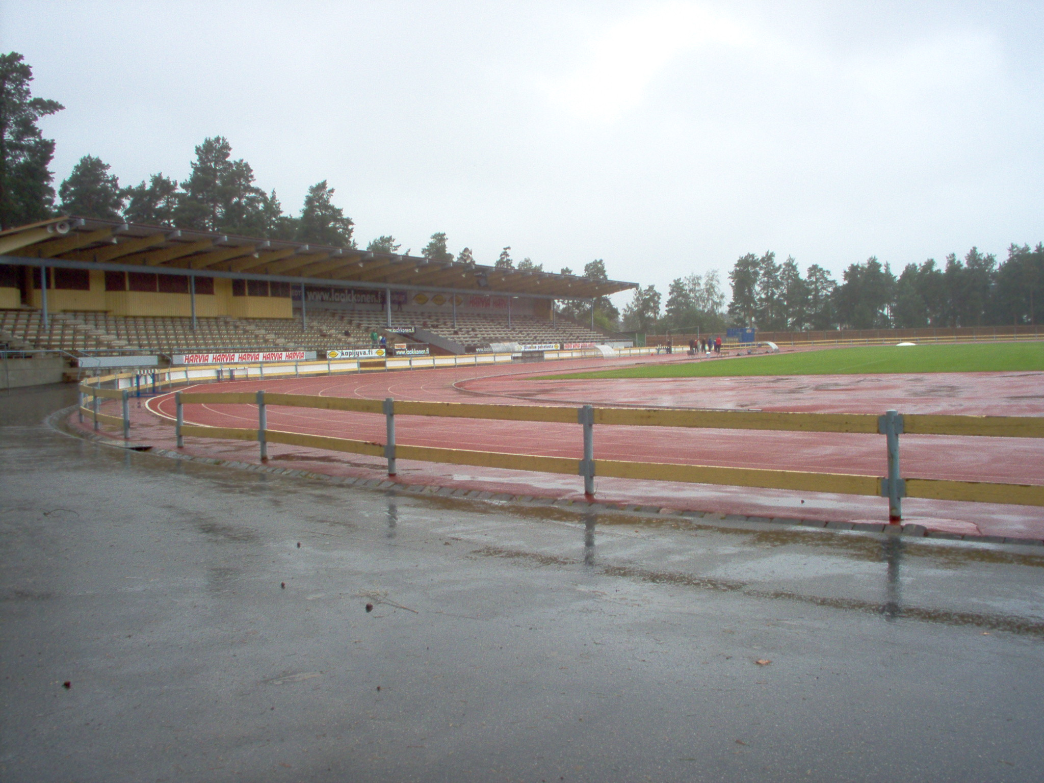 Harju Stadium in Jyväskylä, Finland